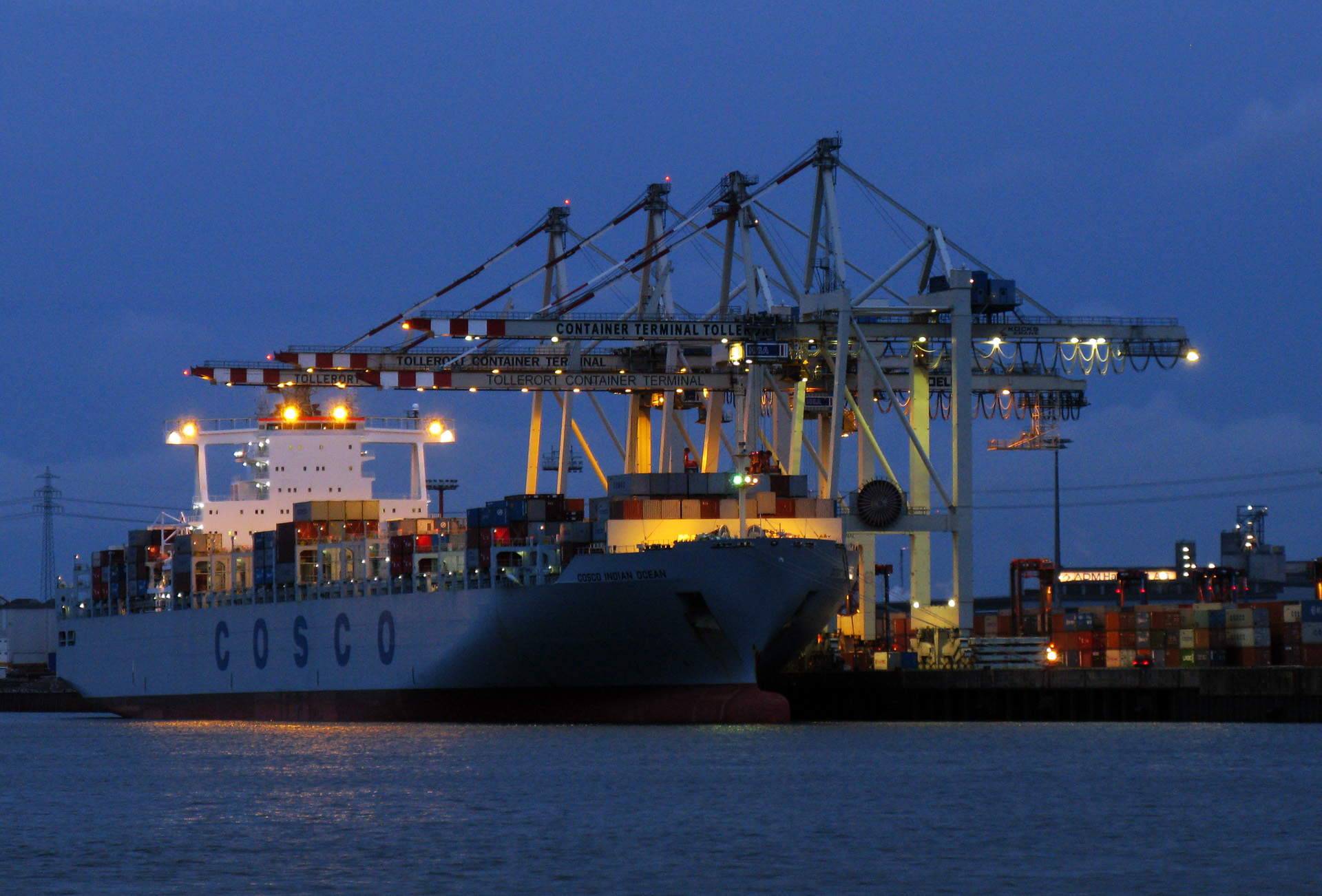 Containership COSCO INDIAN OCEAN in the port of Hamburg